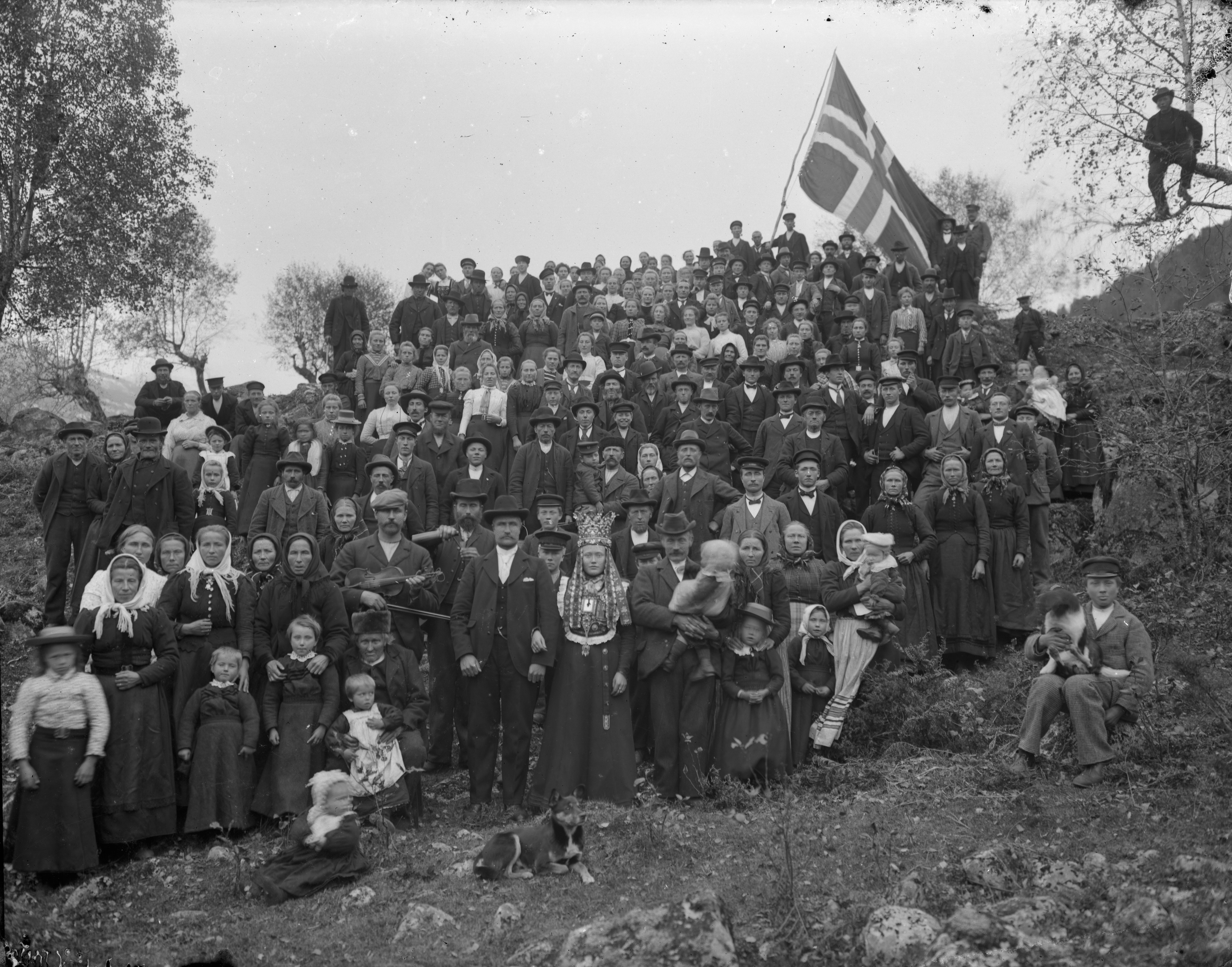 Identifier:SFFf-1995033.268542. Photographer: Knut Aaaning. Date:ca. 1900-1922. Medium: Glass plate negative. Extent: 18 x 24 cm.